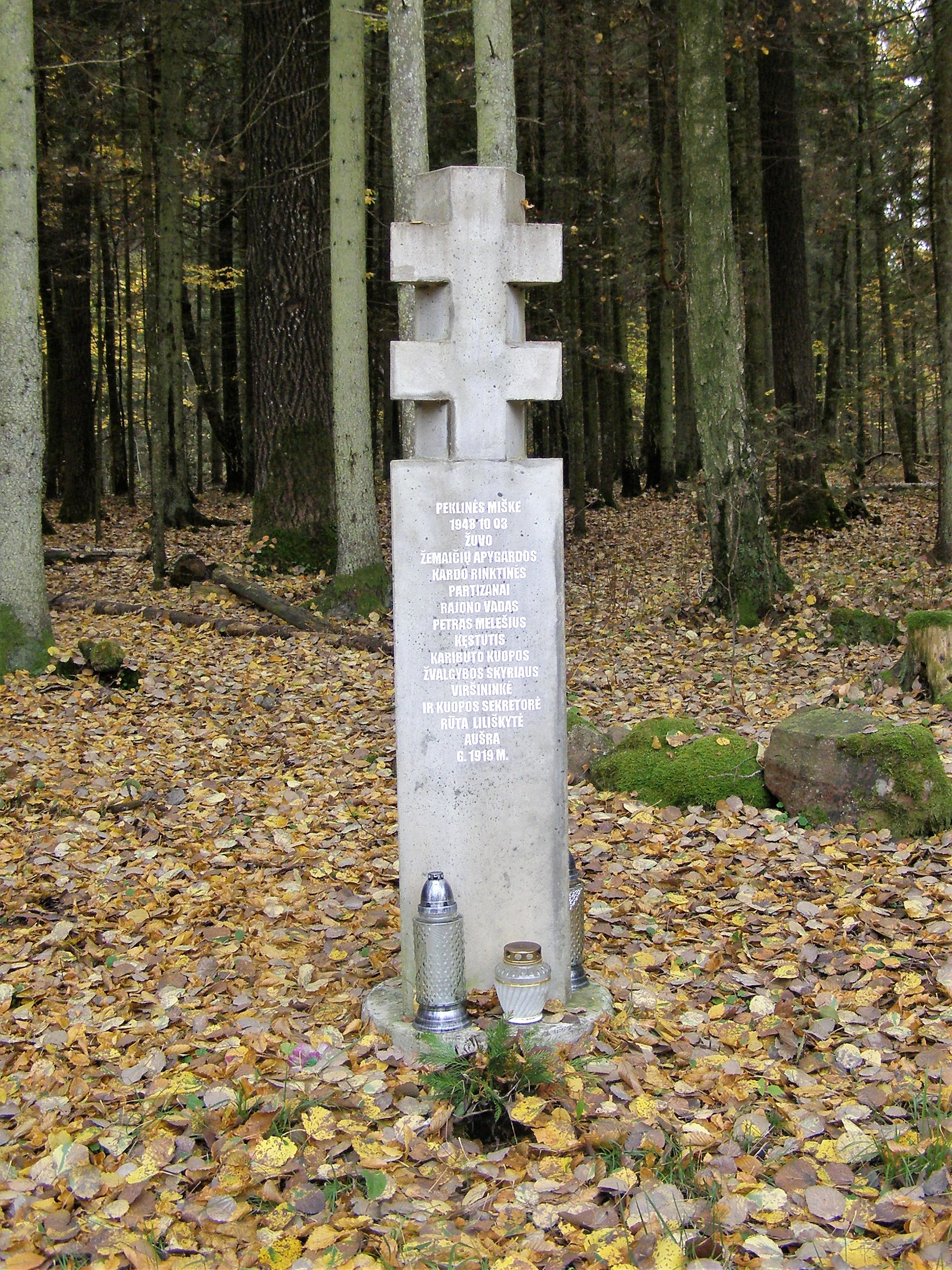 Memorial sign of the Partisans in the village of Didieji Mostaičiai, Plungė district municipality, Lithuania